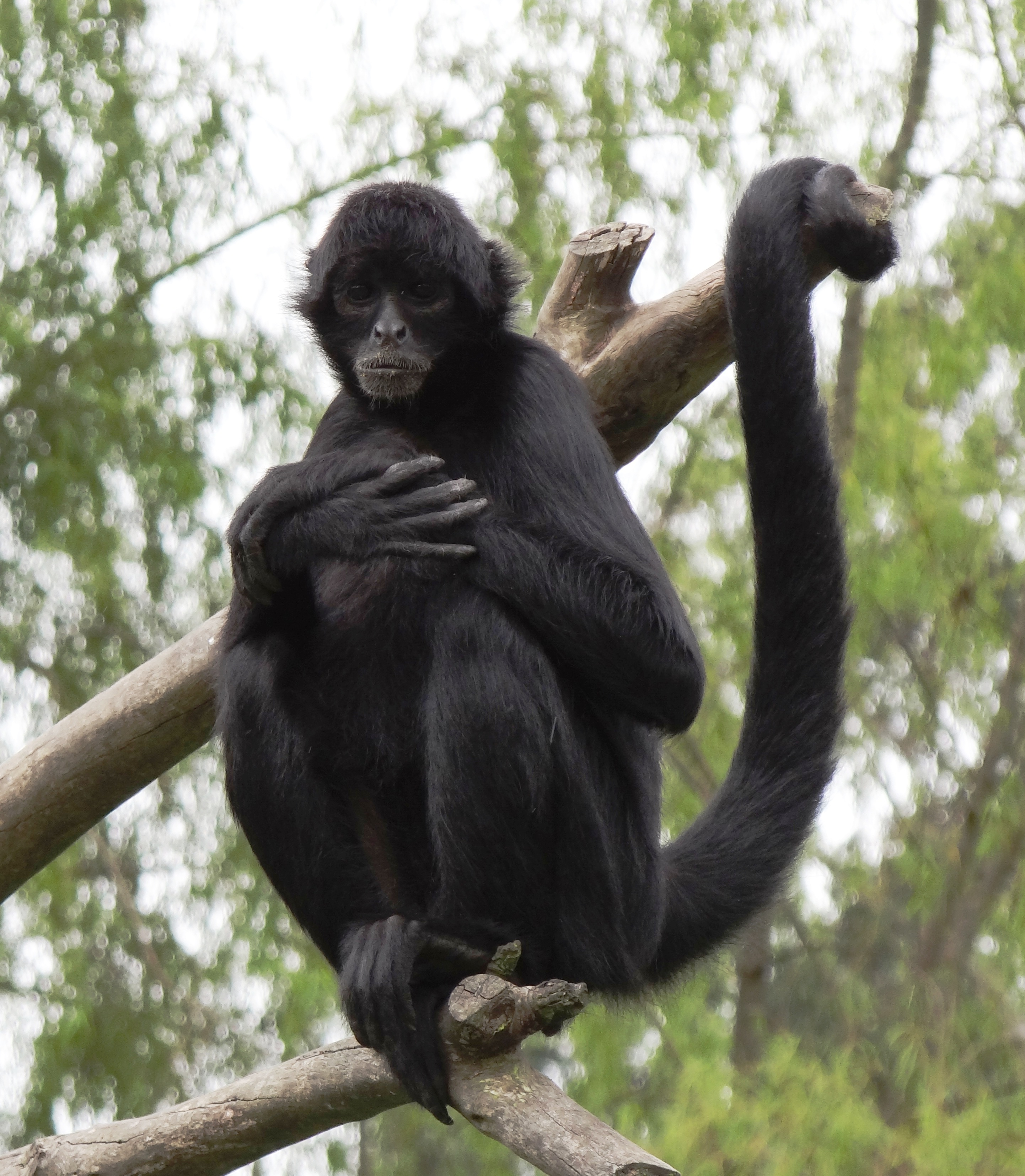 Spider monkey with long arms ( Ateles fusciceps ) at the Jaime Duque Park Zoo, Cundinamarca, Colombia